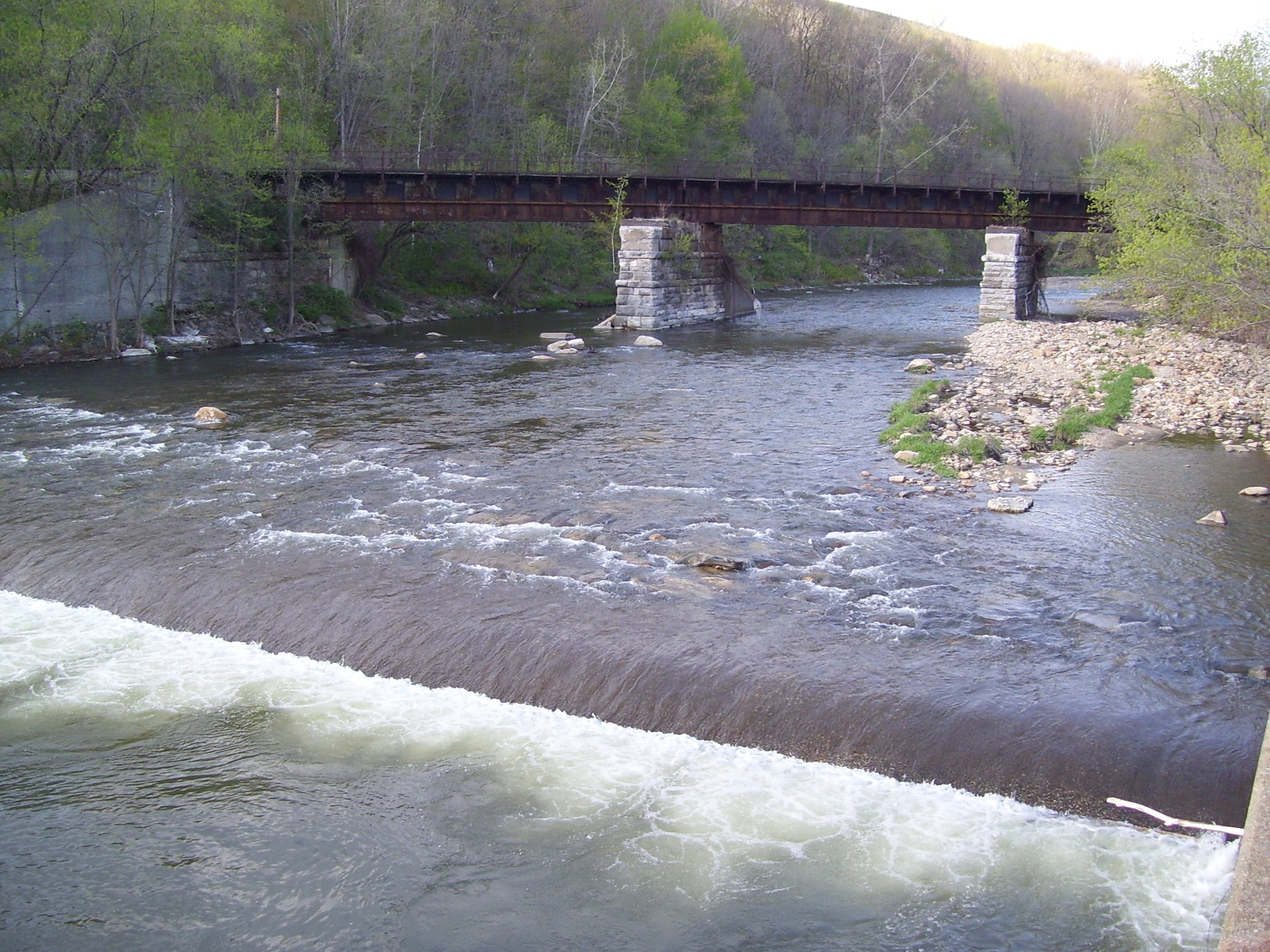 Railroad Bridge and weir on the Hoosic River, seen from the parklet at the end of Alton Place in North Adams, Massachusetts.